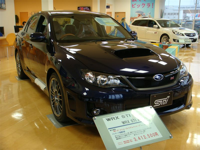 Subaru Impreza